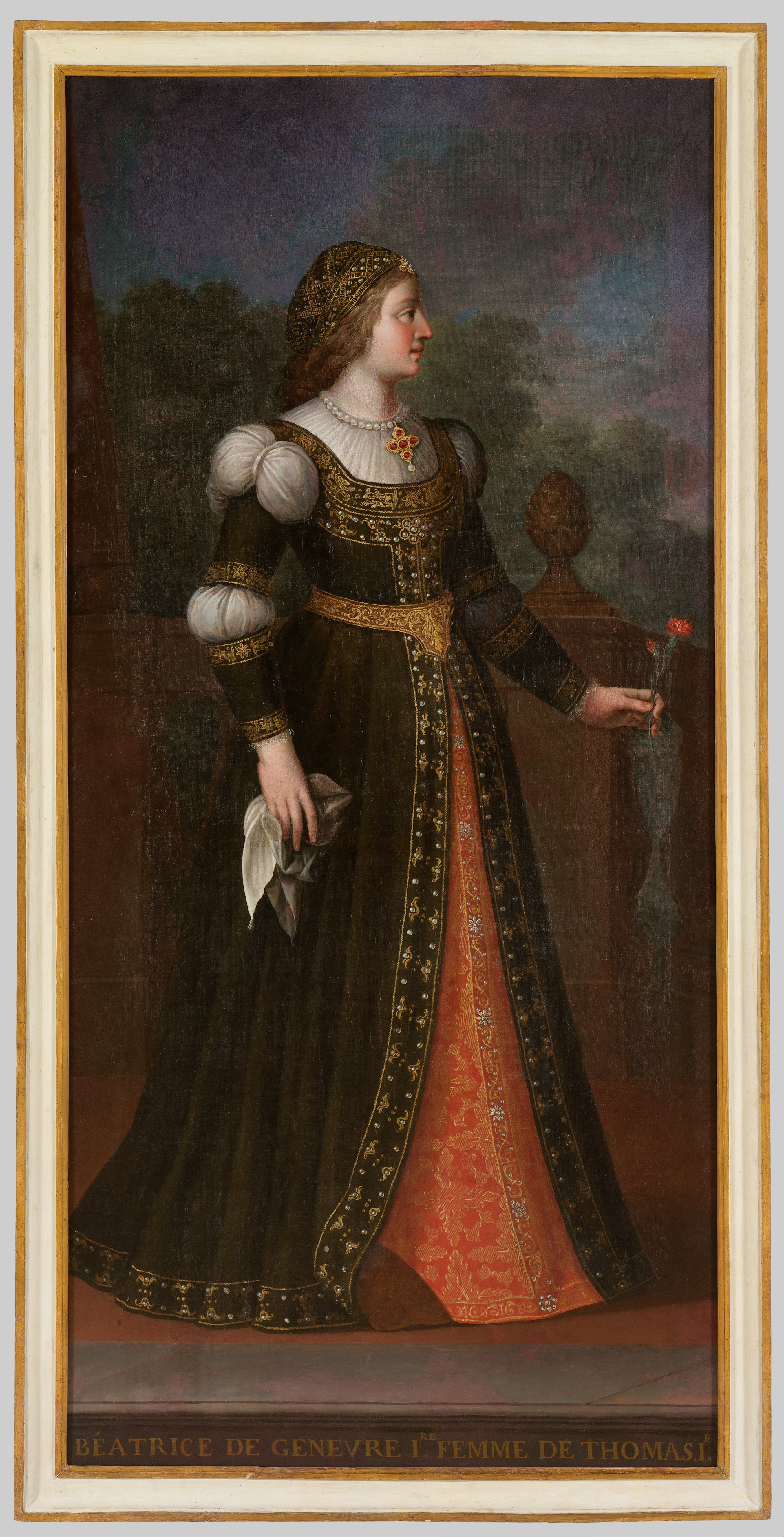 portrait of Beatrice of Ginevra, wife of Tomaso I